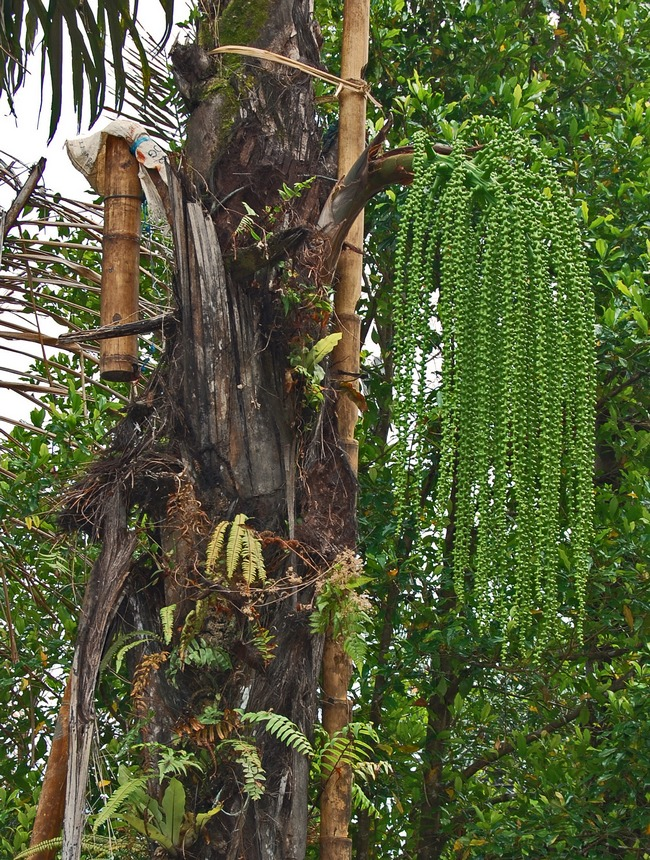 Arenga pinnata, male inflorescence, tapped for making palm-sugar. Sirnarasa, Sukabumi, West Java, Indonesia